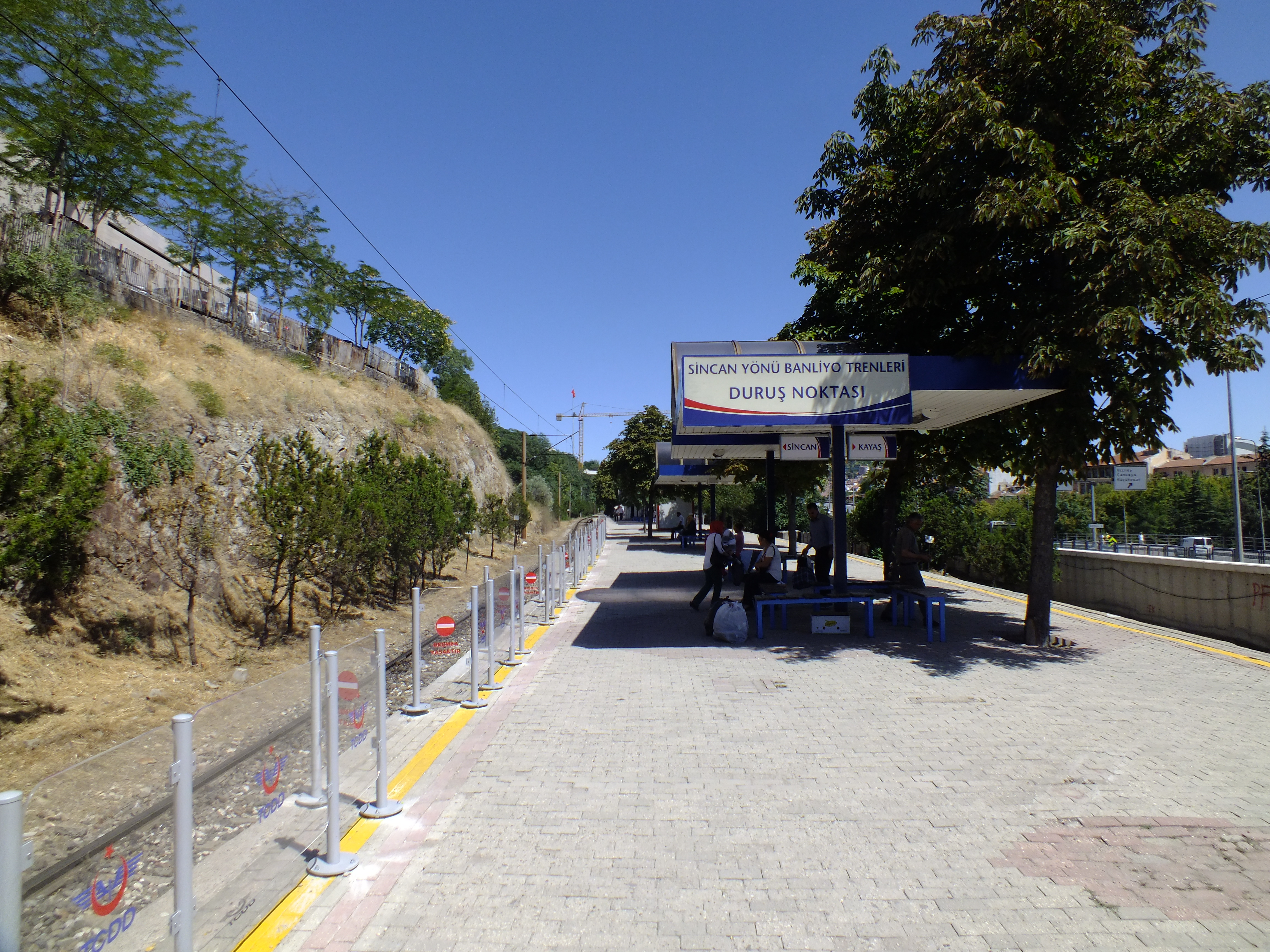 Yenişehir station on the Ankara suburban before reconstruction.